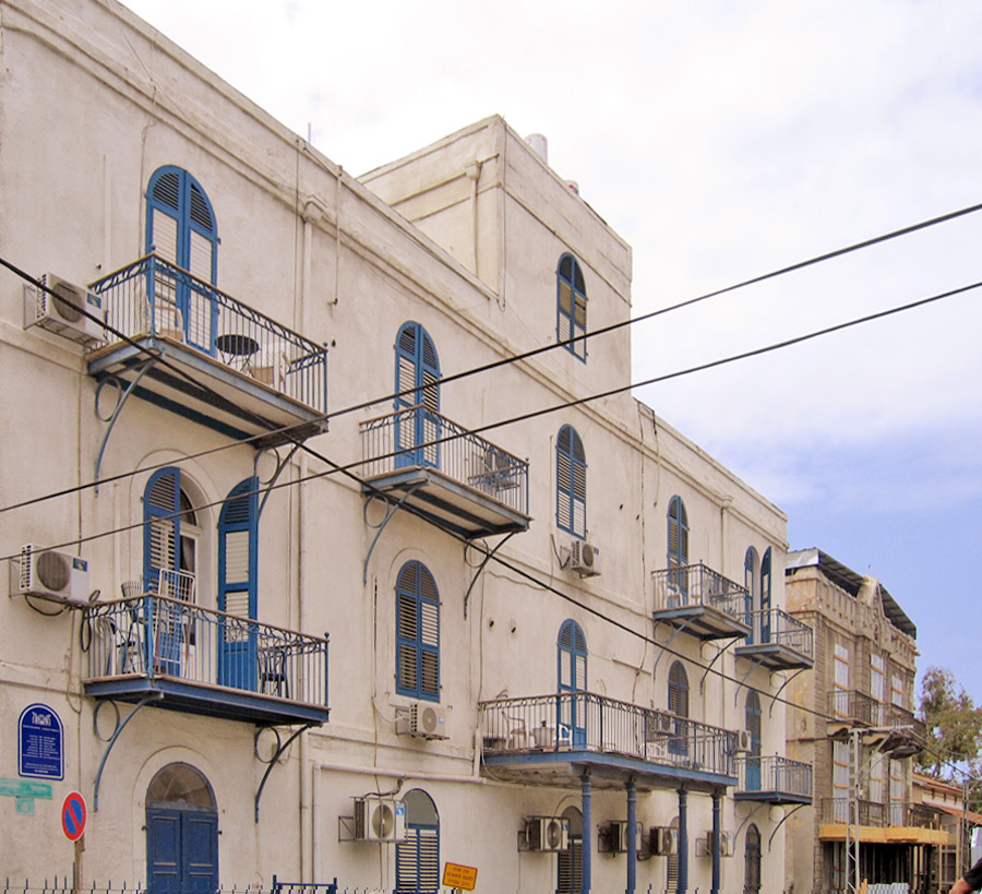 Park hotel in the American-Templar clolony in Jaffa, Israel